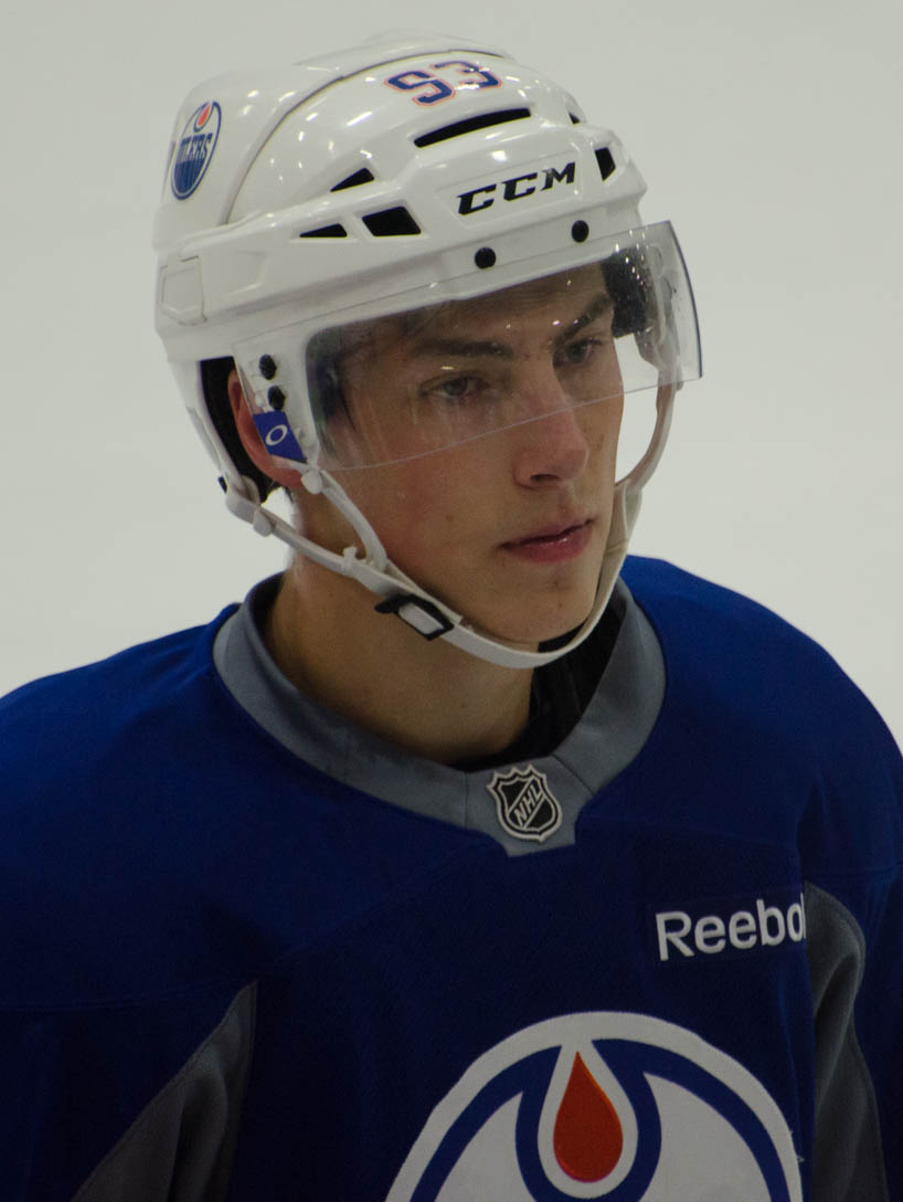 Ryan Nugent-Hopkins at an Edmonton Oilers practice, Sept. 27, 2014